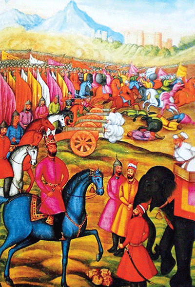 odnfopern